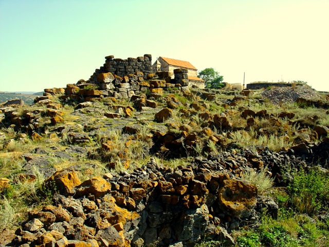 Saro St. Archangel Church and cyclopic structures, Georgia.